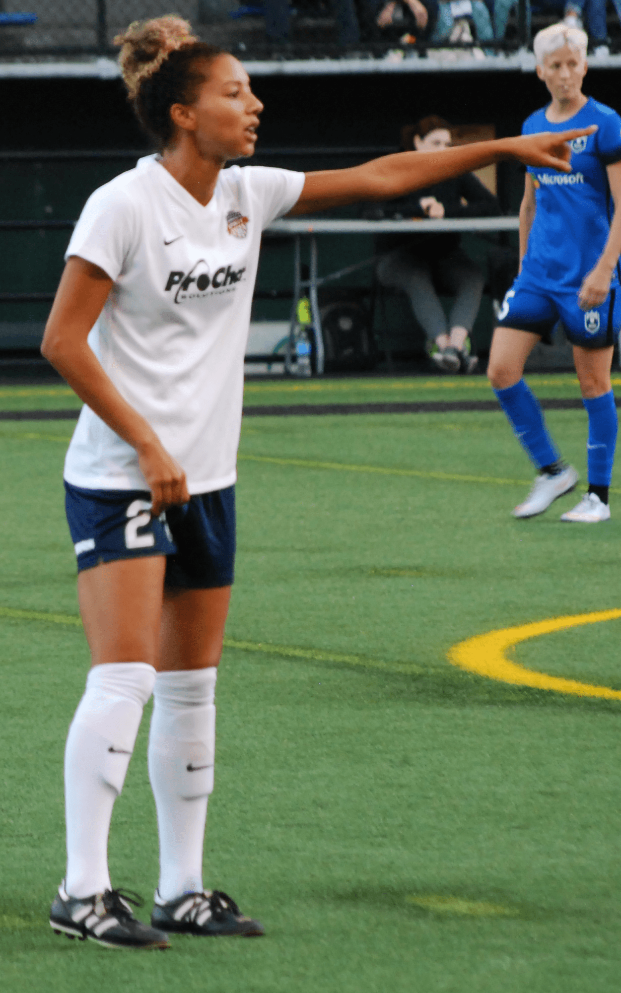 Estelle Johnson, Seattle Reign FC vs Washington Spirit, September 11, 2016 at Memorial Stadium